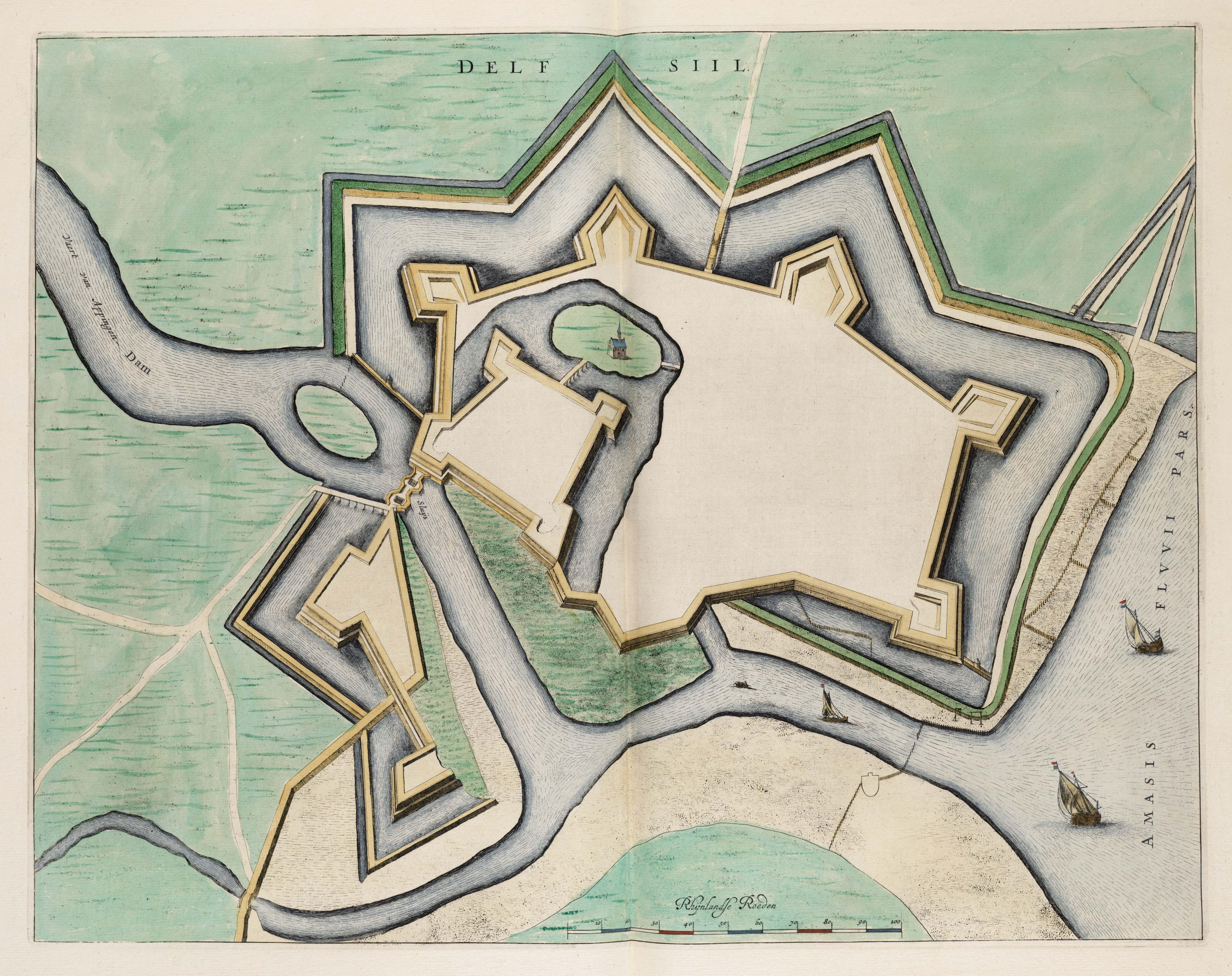 Map of Delfzijl.